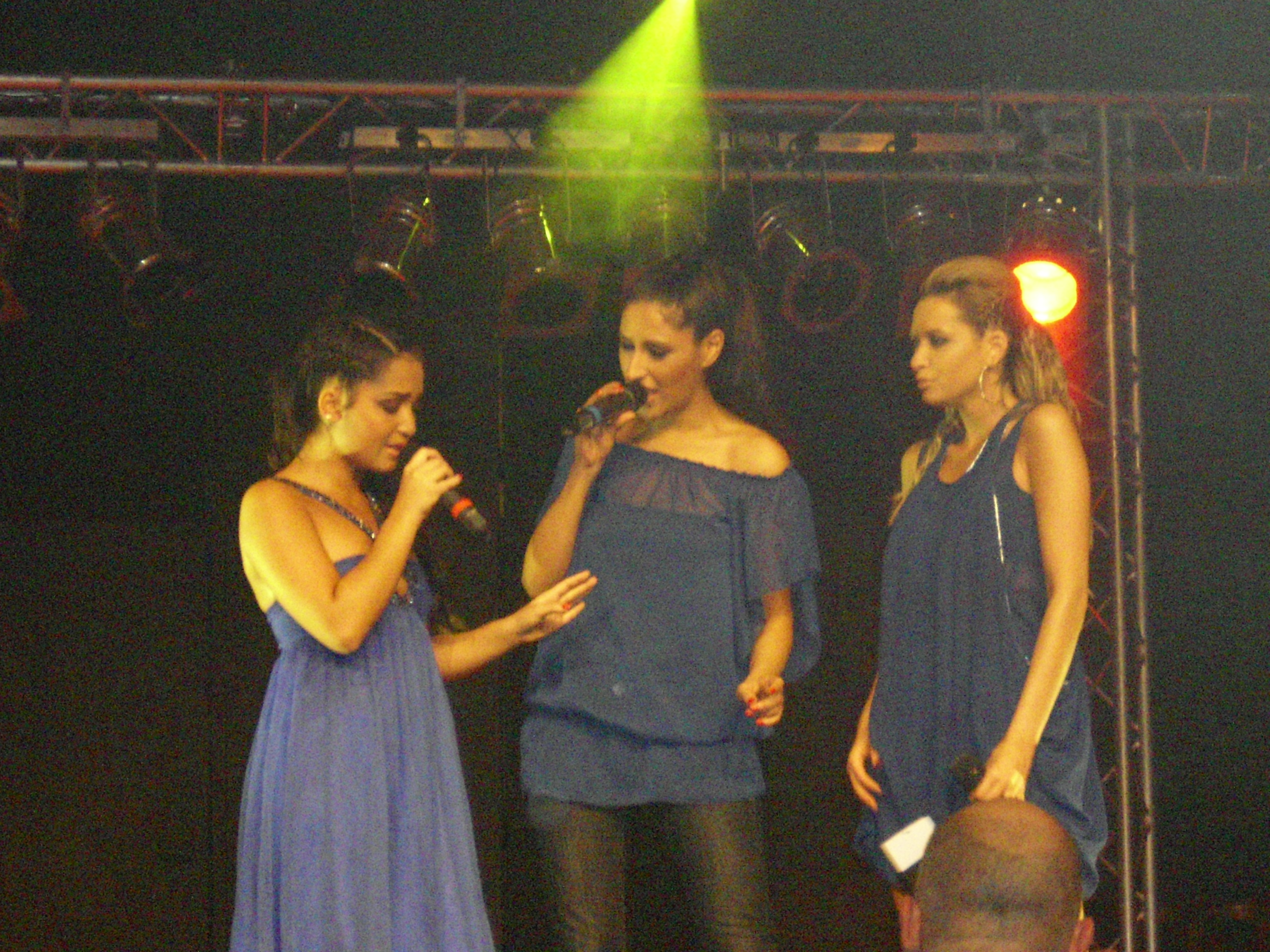 Monrose at a charity concert in the Jahnhalle in Gross-Gerau.